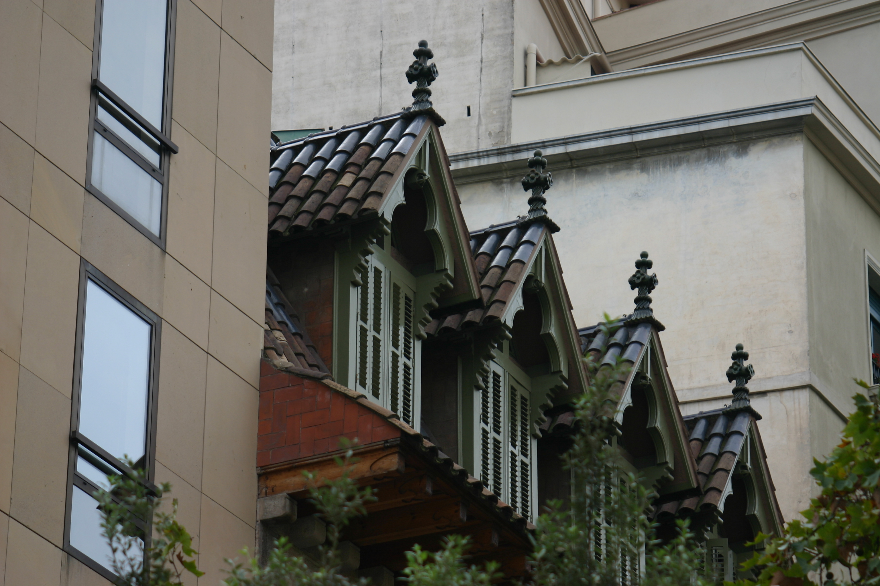 Roof and upper facade detail. Palau del Baró de Quadras, by architect Josep Puig i Cadafalch, Barcelona